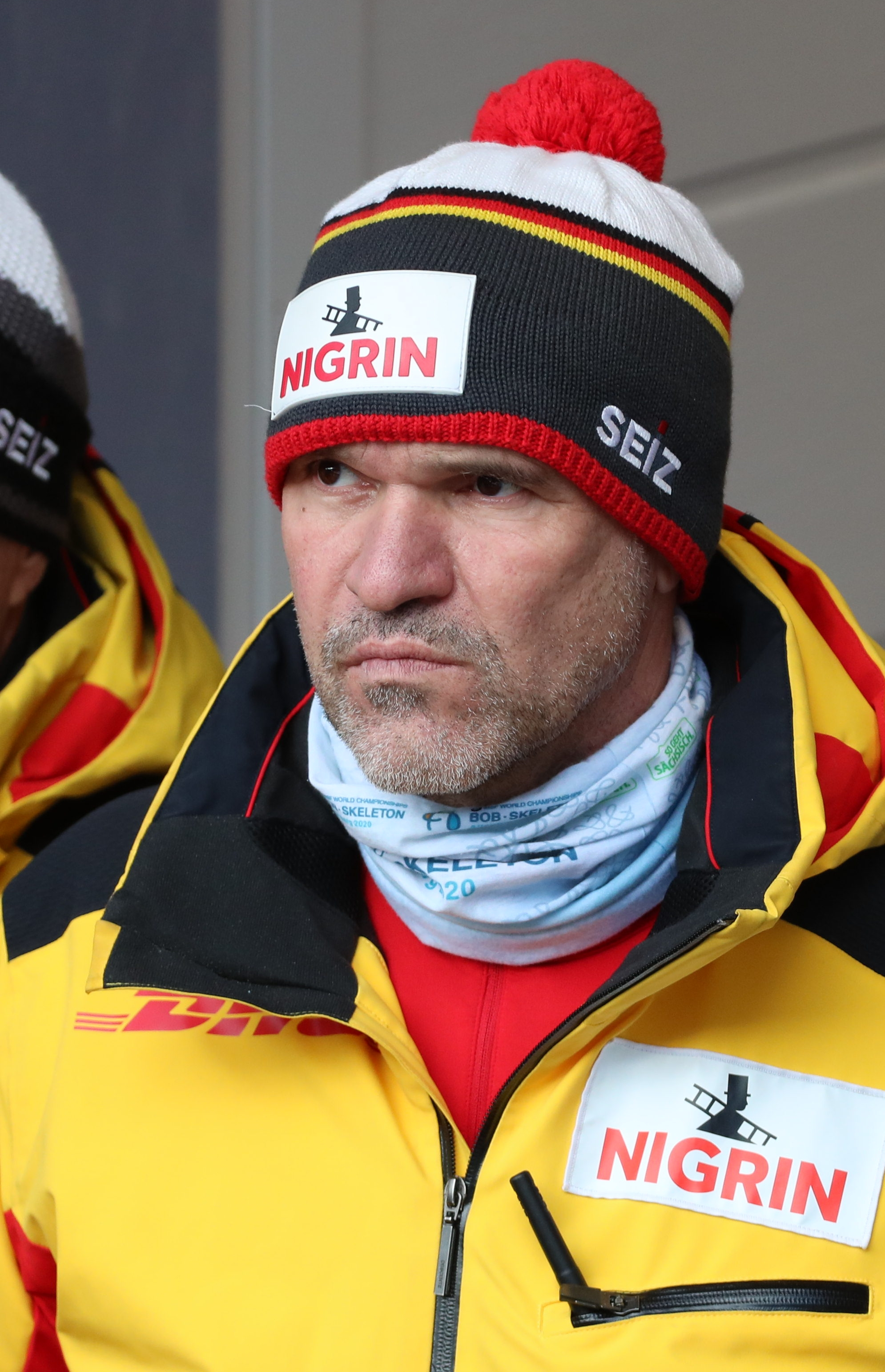 2nd run at the 2-woman bobsleigh at the Bobsleigh and Skeleton World Championships 2020 in Altenberg